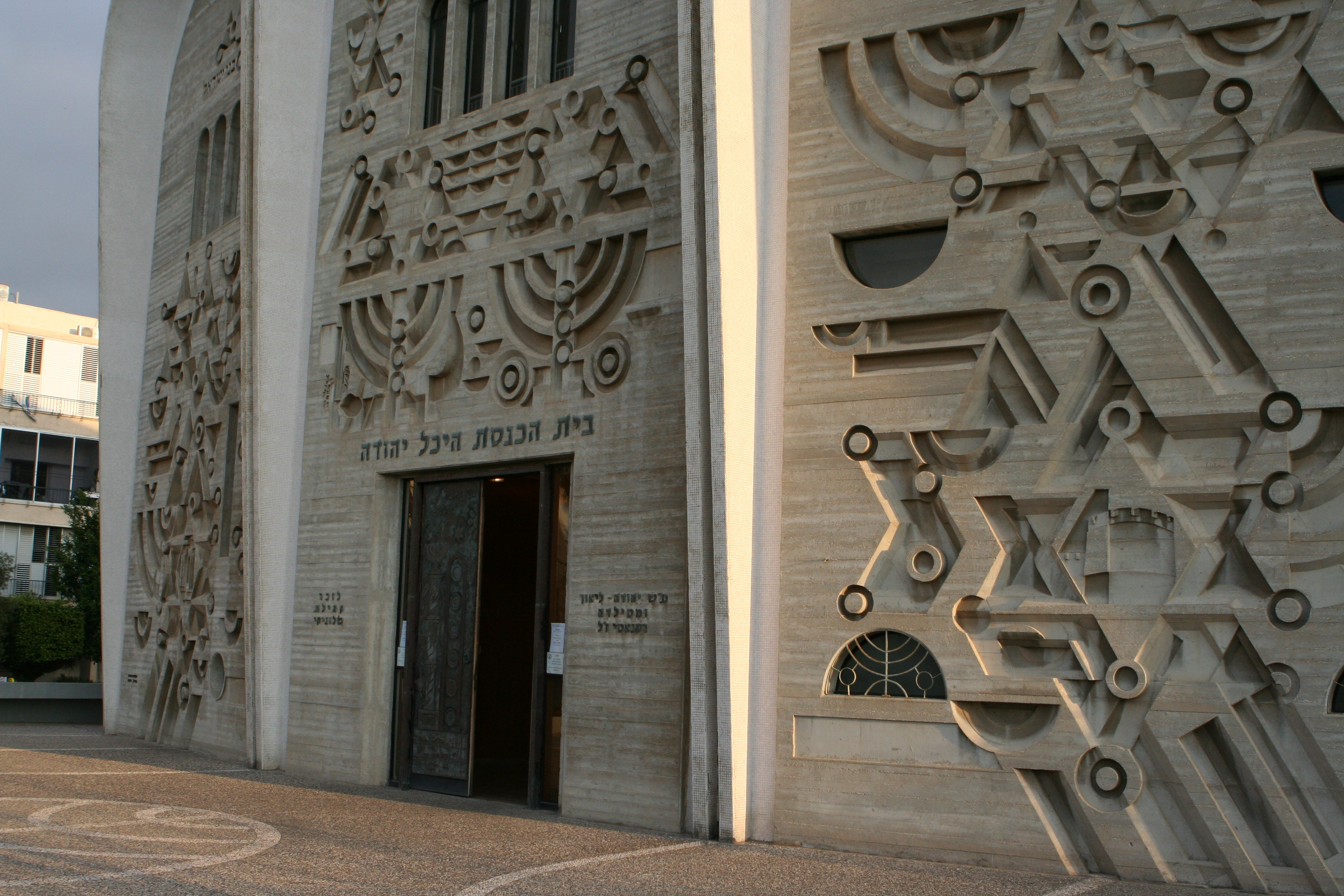 Hechal Yehuda Synagogue in Tel Aviv